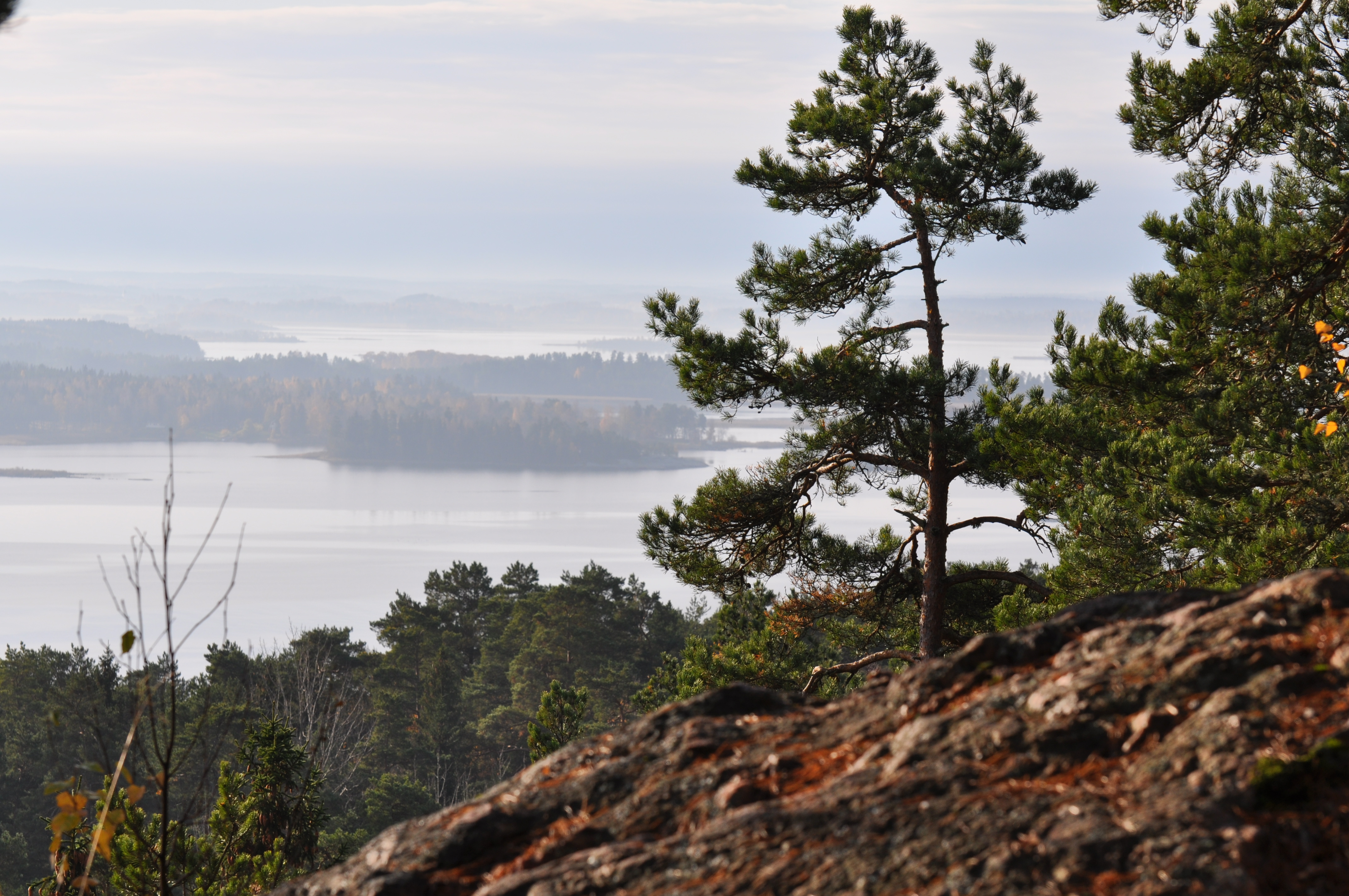 The bay Bråviken, seen from Kolmården wildlife Park